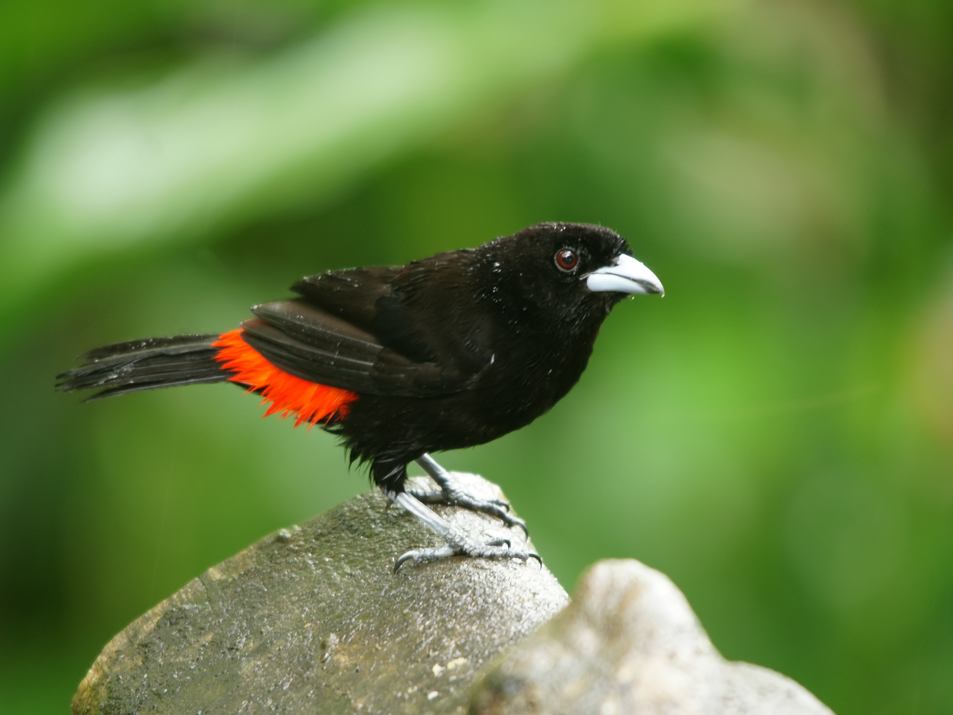 Passerini's Tanager near Las Horquetas, Costa Rica.